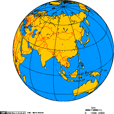 Orthographic projection centred over Gongga Shan.